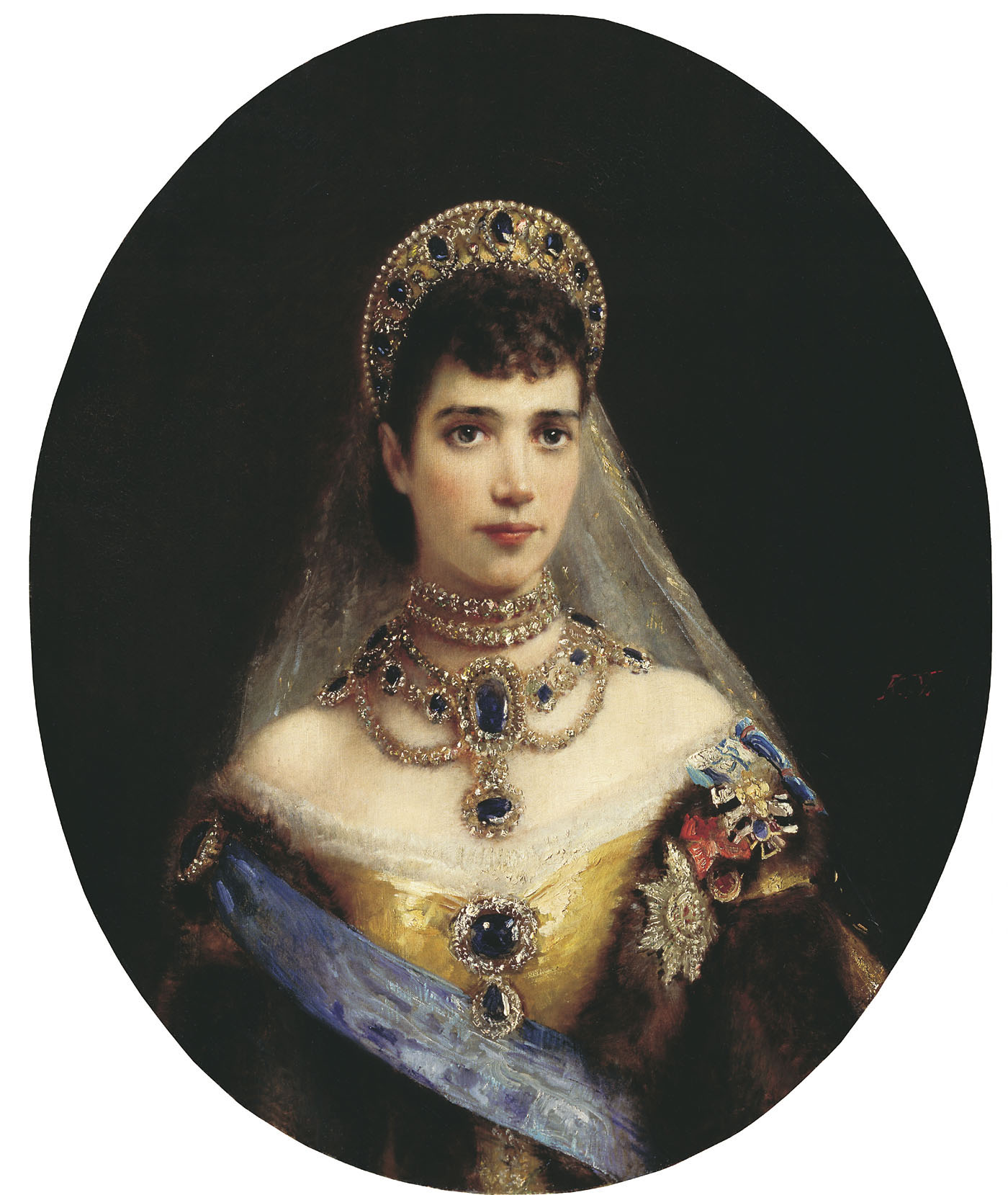 Portrait of Maria Fyodorovna (1847-1928)